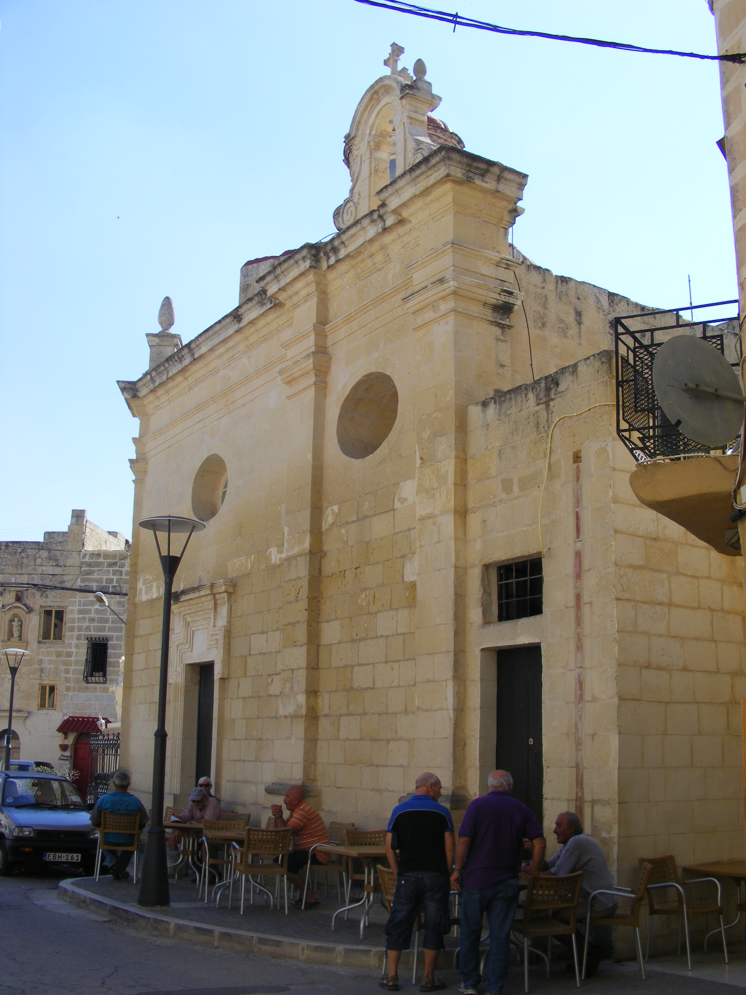 St Catald Church, Rabat, Malta (side view)